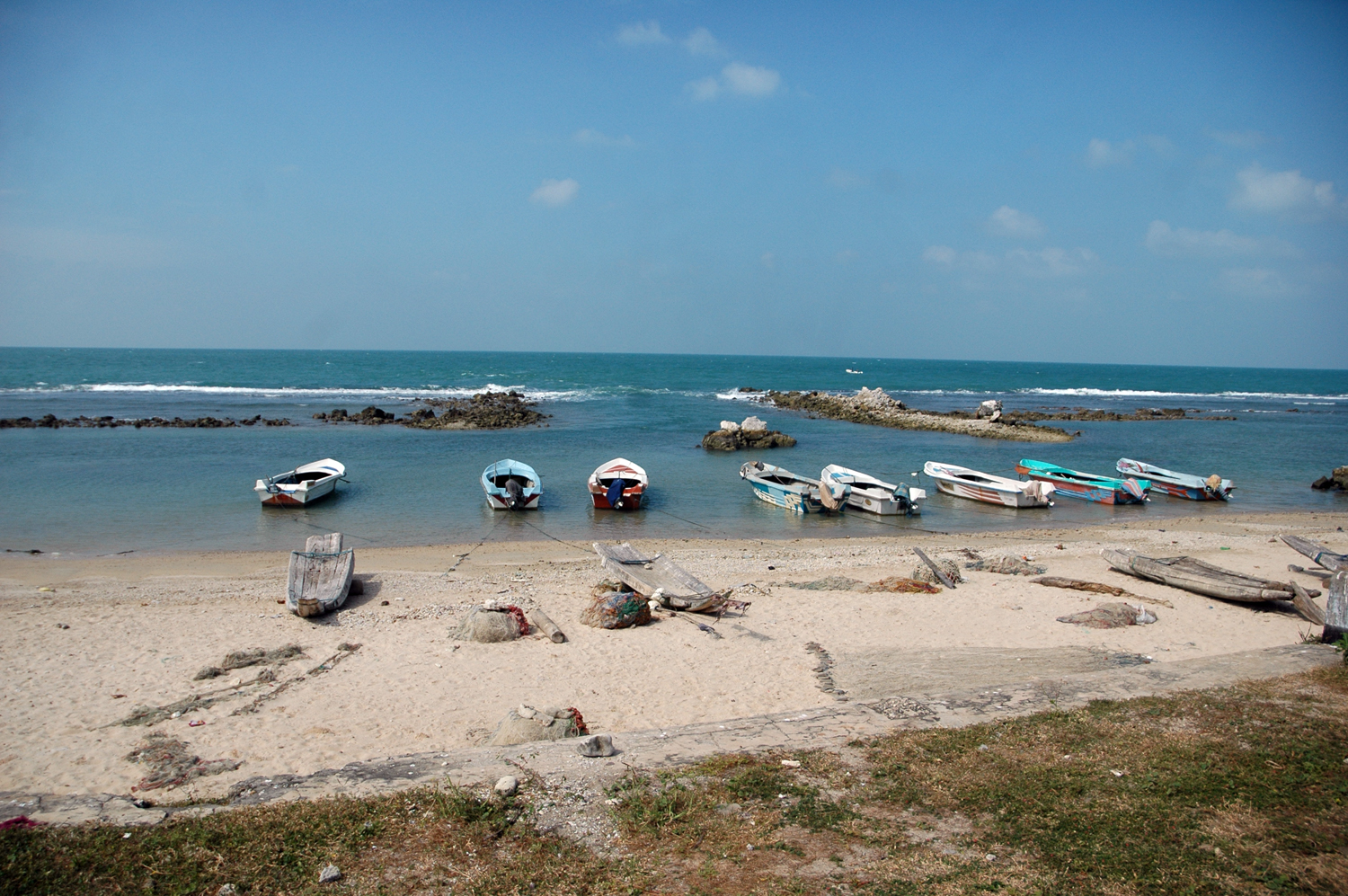 Valvettithurai Beach, Jaffna